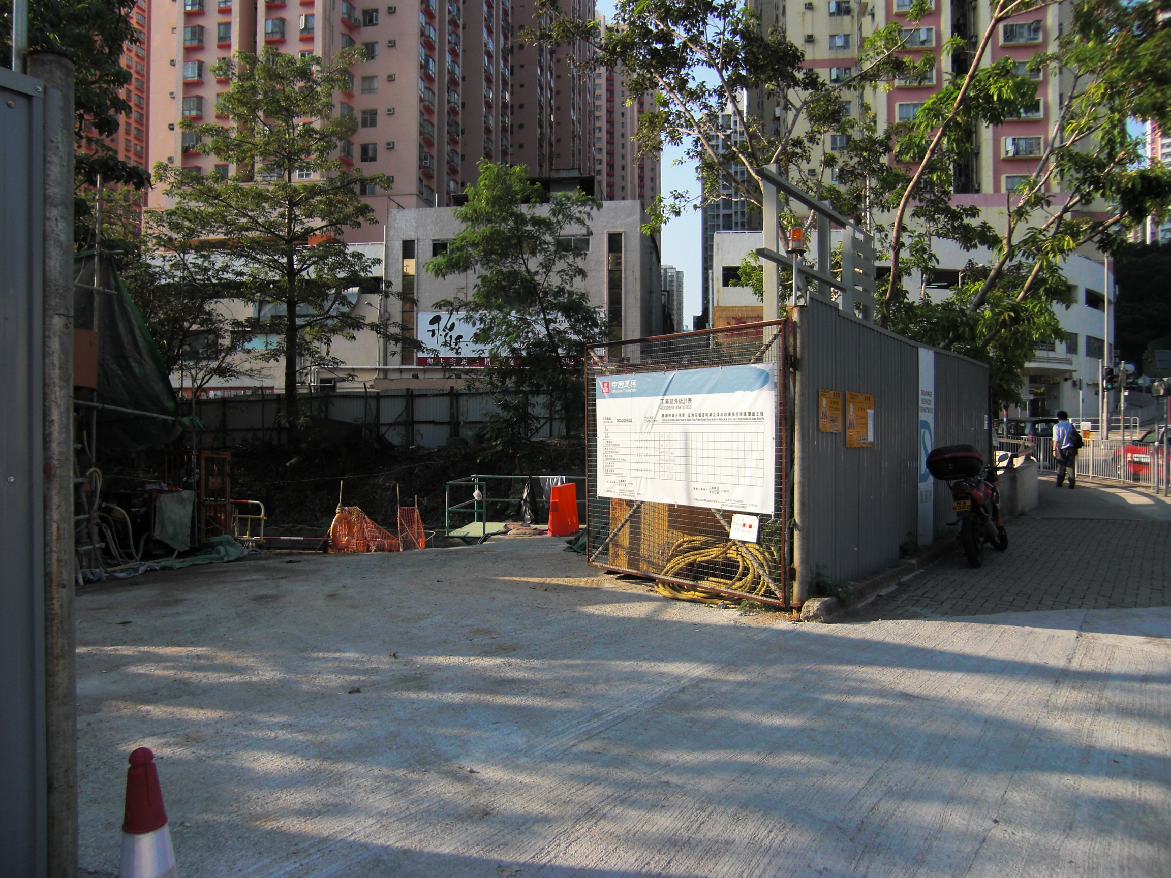 A view taken from Choi Ha Road towards the north. The construct site of covering Jordan Valley Nullah is seen.